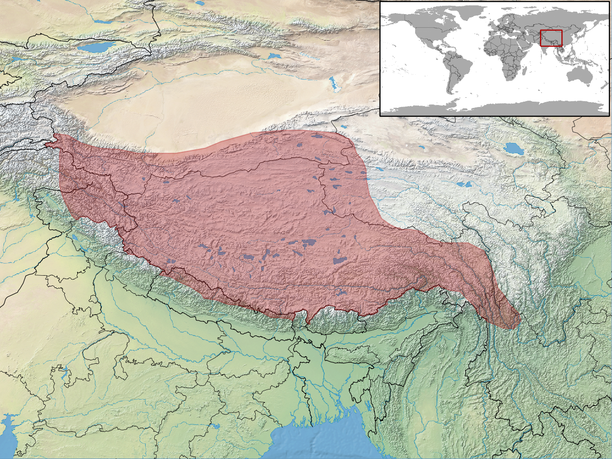 geographic distribution of Phrynocephalus theobaldi (Native: China (Tibet [or Xizang], Xinjiang); India (Jammu-Kashmir))